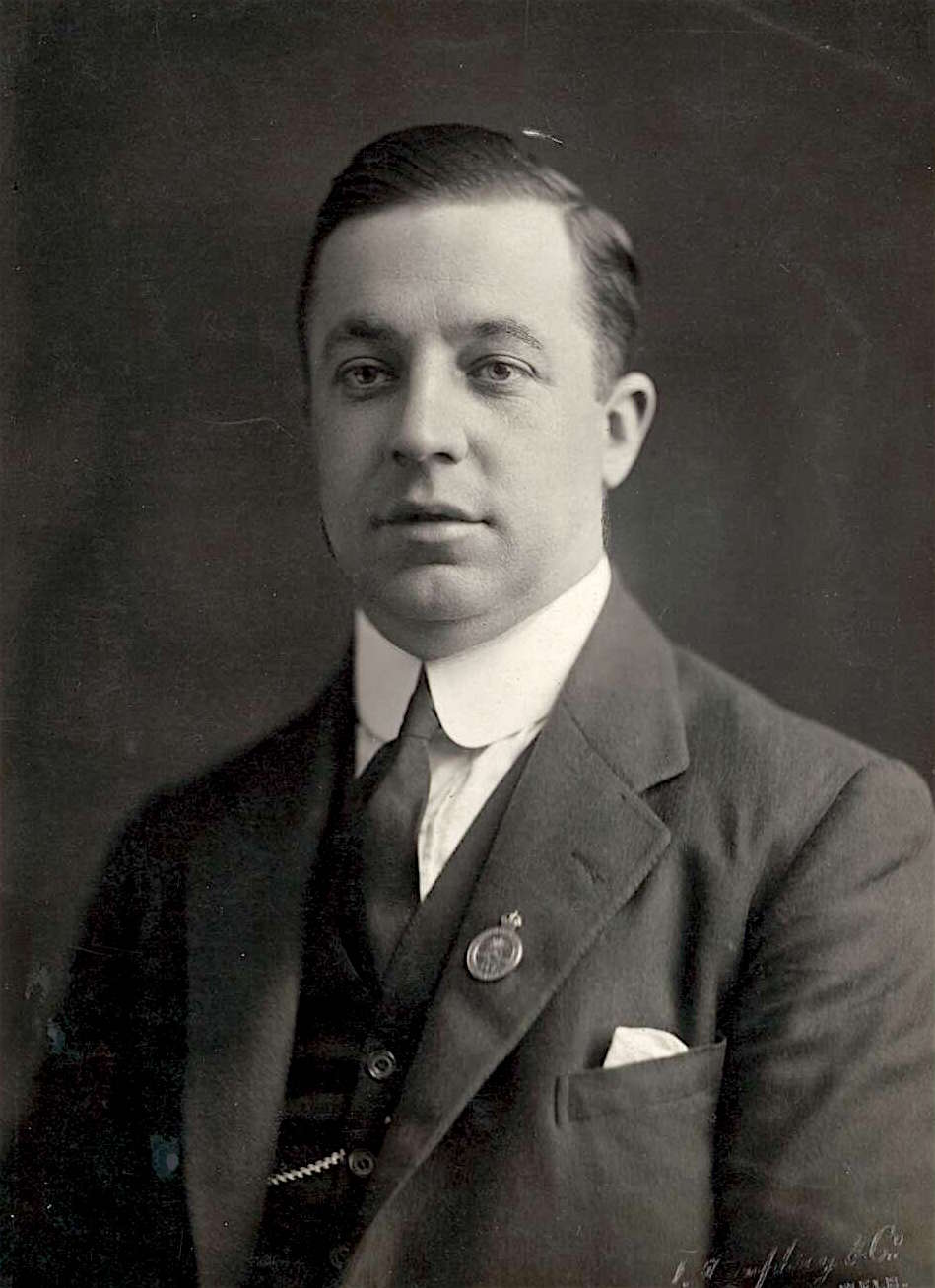 Portrait of Senator Harry Foll as a younger man (c. 1920s)